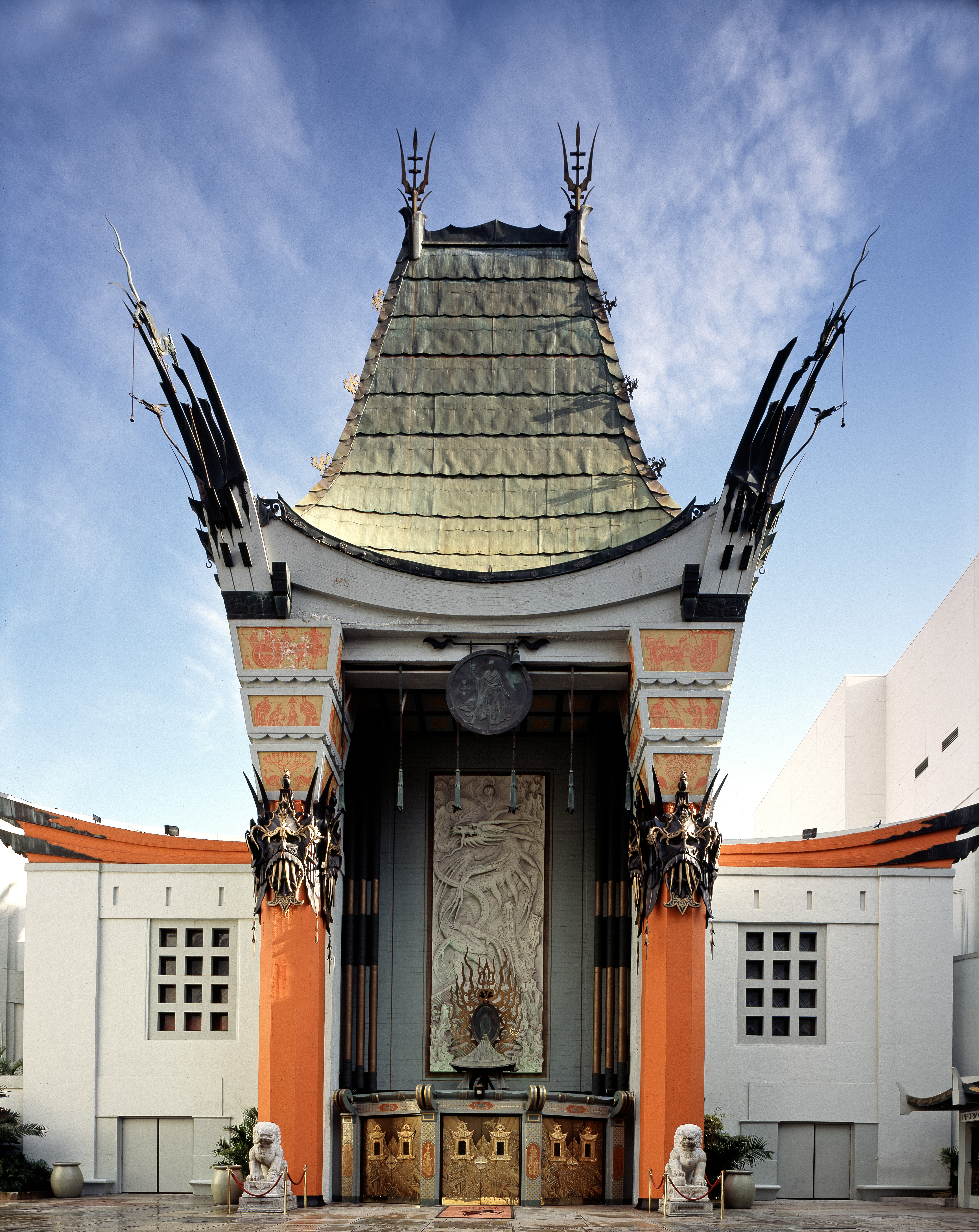 Mann's (formerly Grauman's) Chinese Theatre is the ultimate Hollyood tourist attraction, with crowds often jamming the patio to inspect handprints of movie stars. The opening of Grauman's in 1927 was the most spectacular theater opening in film history.